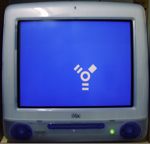 Apple Macintosh G3 iMac booted in Target Mode, showing FireWire logo onscreen.